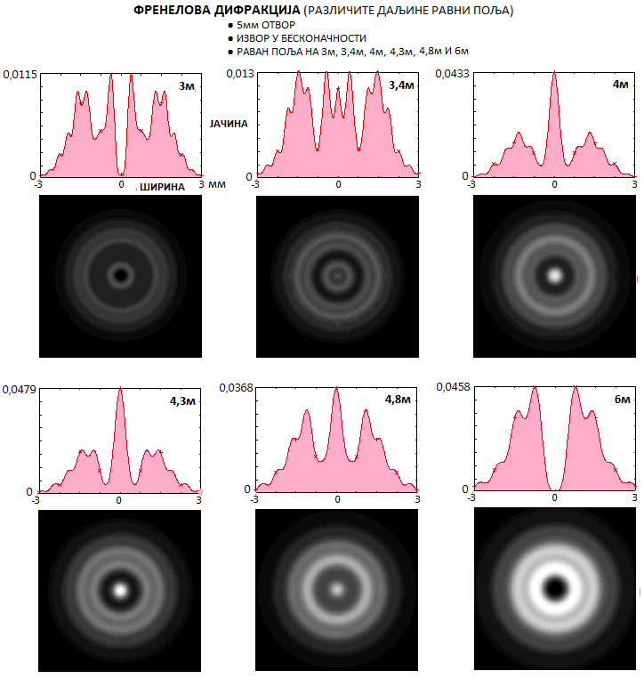 ФРЕНЕЛОВА ДИФРАКЦИЈА